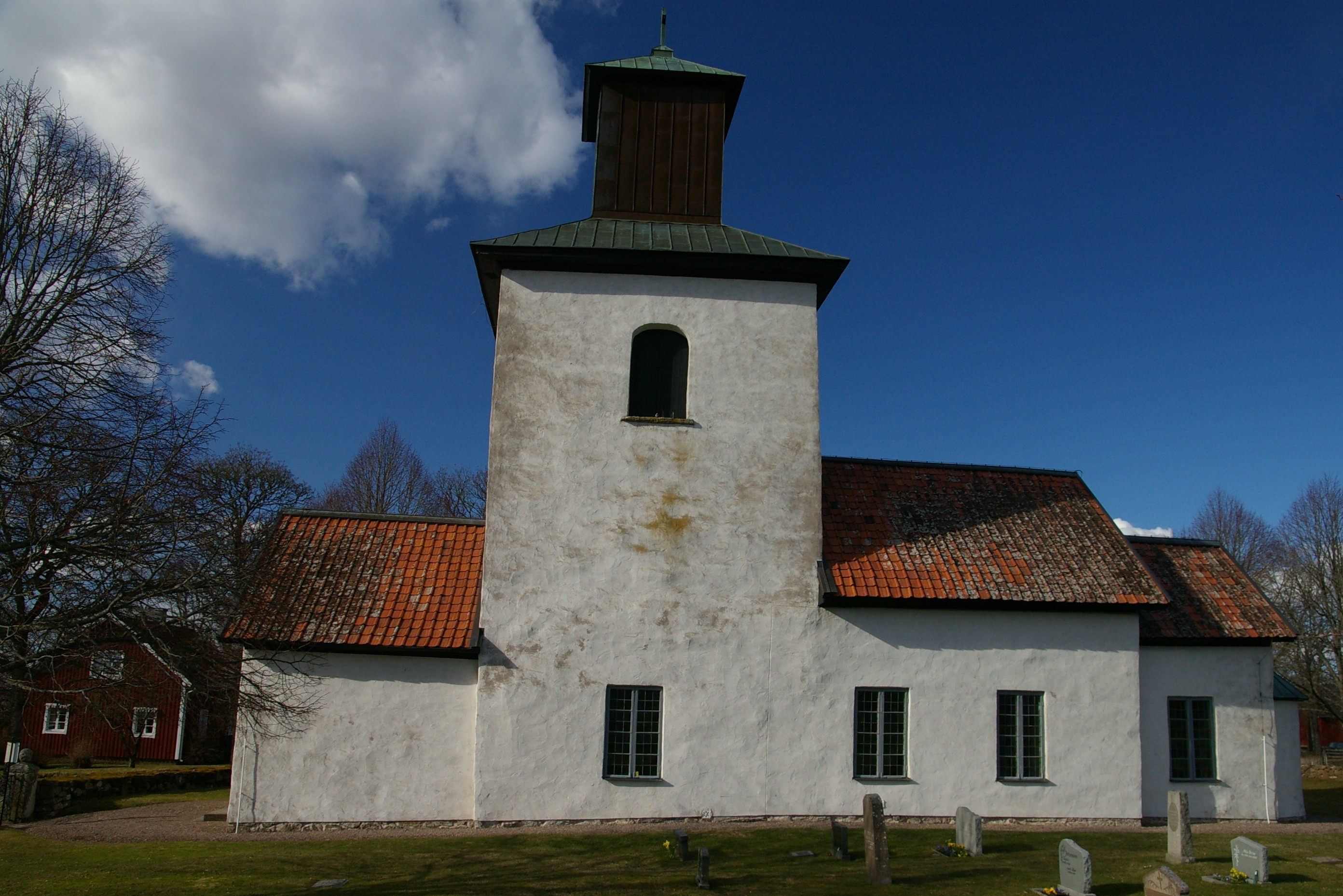 Mularps kyrka (Church of Mularp) is a church from 1197 situated in the village of Mularp in Falköping Municipality in Sweden. The tower was erected in the 16th century.